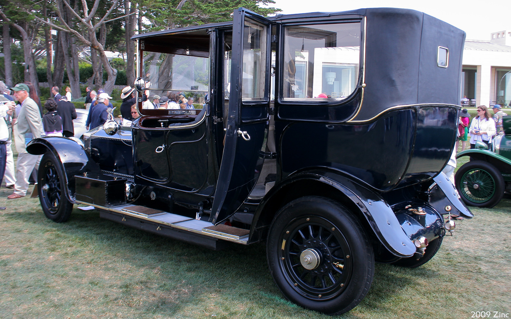 Pebble Beach Concours dElegance, Aug 16, 2009